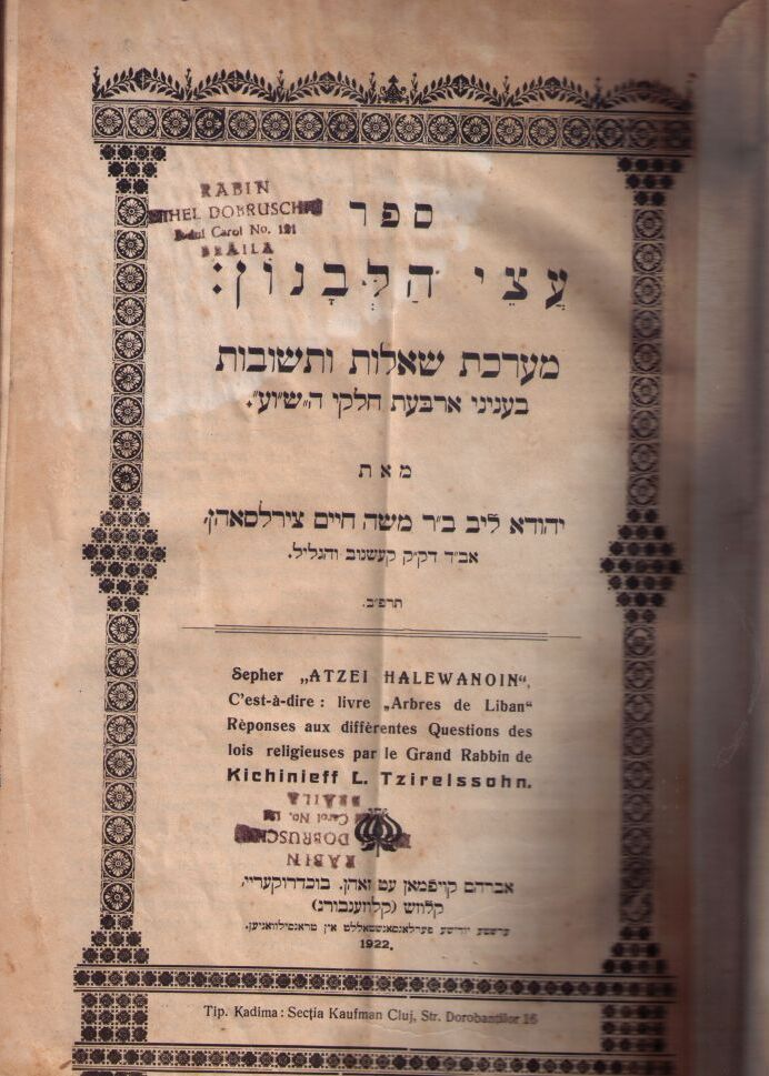 Book of Rabbi Tzirelson